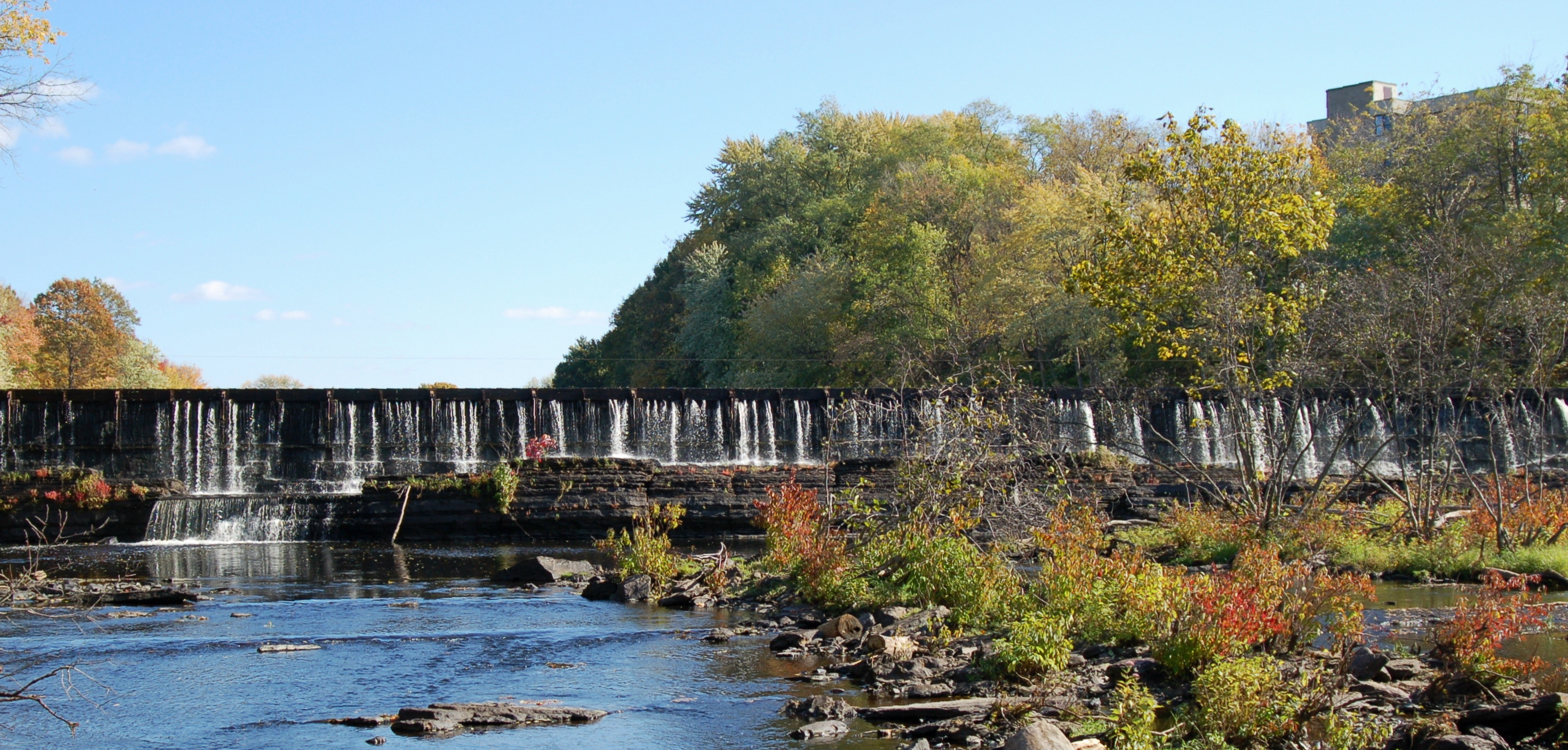 Below the Chicopee Falls dam. Photo by Author, Richard B. Johnson Category:Images of Massachusetts Summary Below the Chicopee Falls dam. Photo by Author, Richard B. Johnson